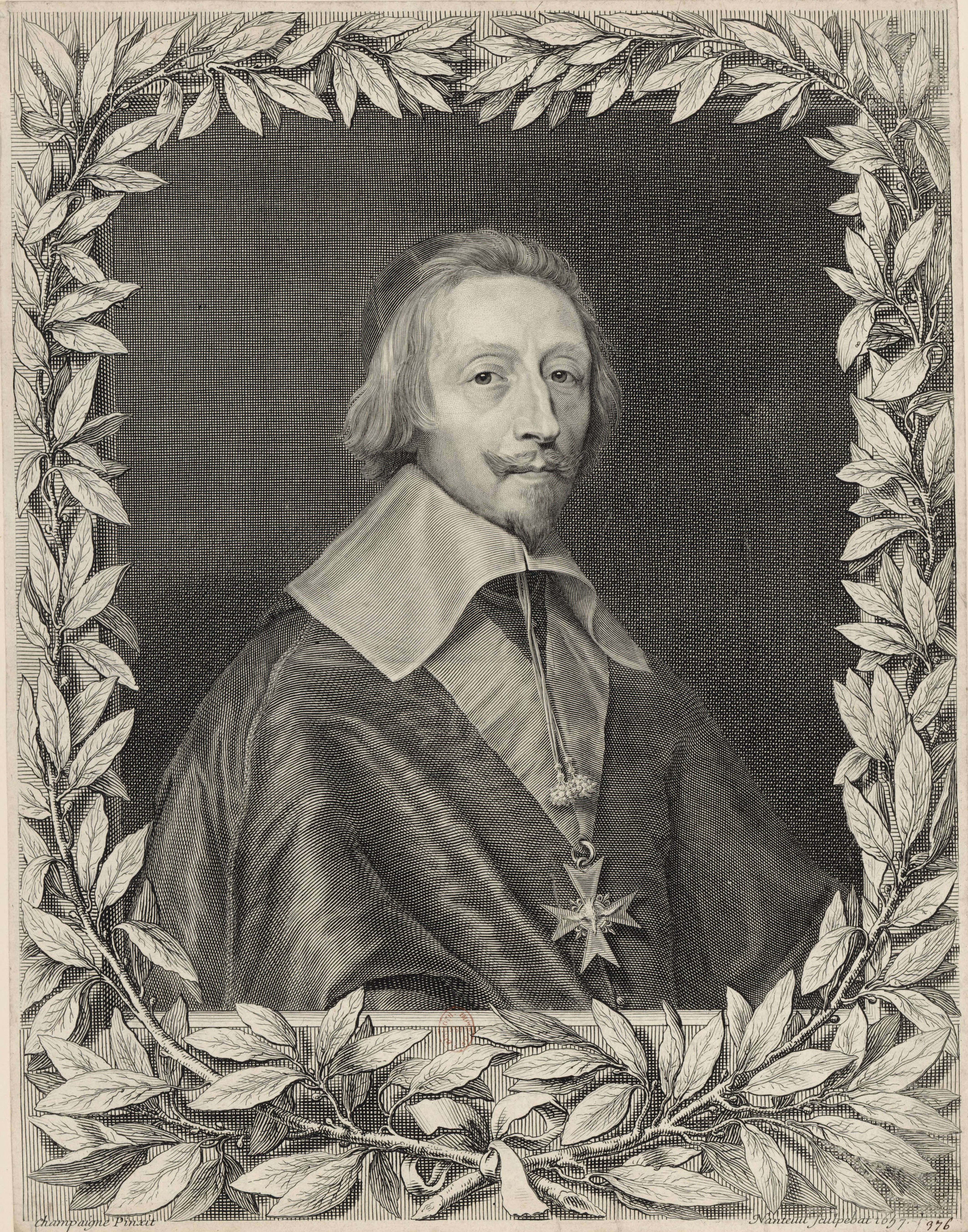 Engraved portrait of Cardinal Richelieu (1582-1642)